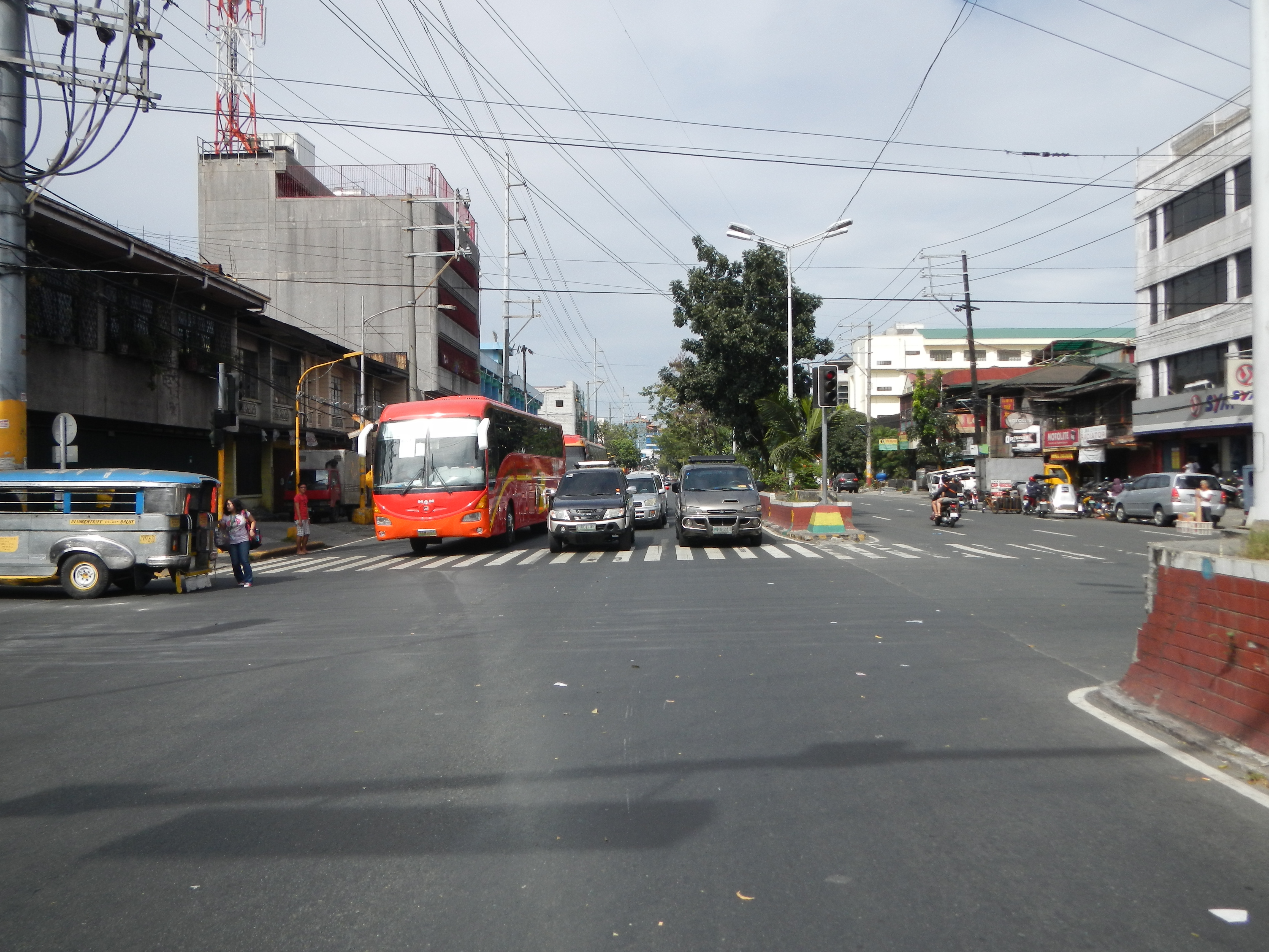 Upload Wizard photos of - Jose Abad Santos Avenue [1] a major north-south arterial road located in the district of Tondo [2] in northern Manila, a divided roadway with four lanes along the List of rivers and estuaries in Metro Manila [3] - a) Jose Abad Santos Bridge and Estero and b) Philippine National Railways[4] towards Blumentritt railway station[5].